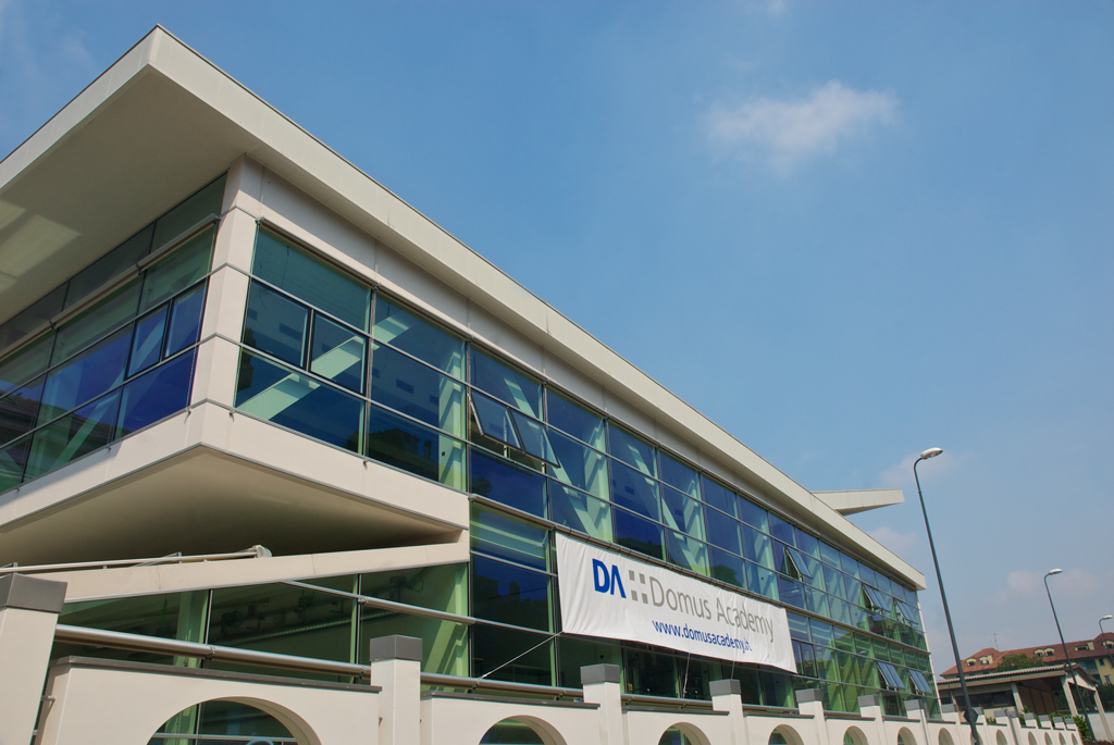 Domus Academy new Campus in via Pichi 18, Milano